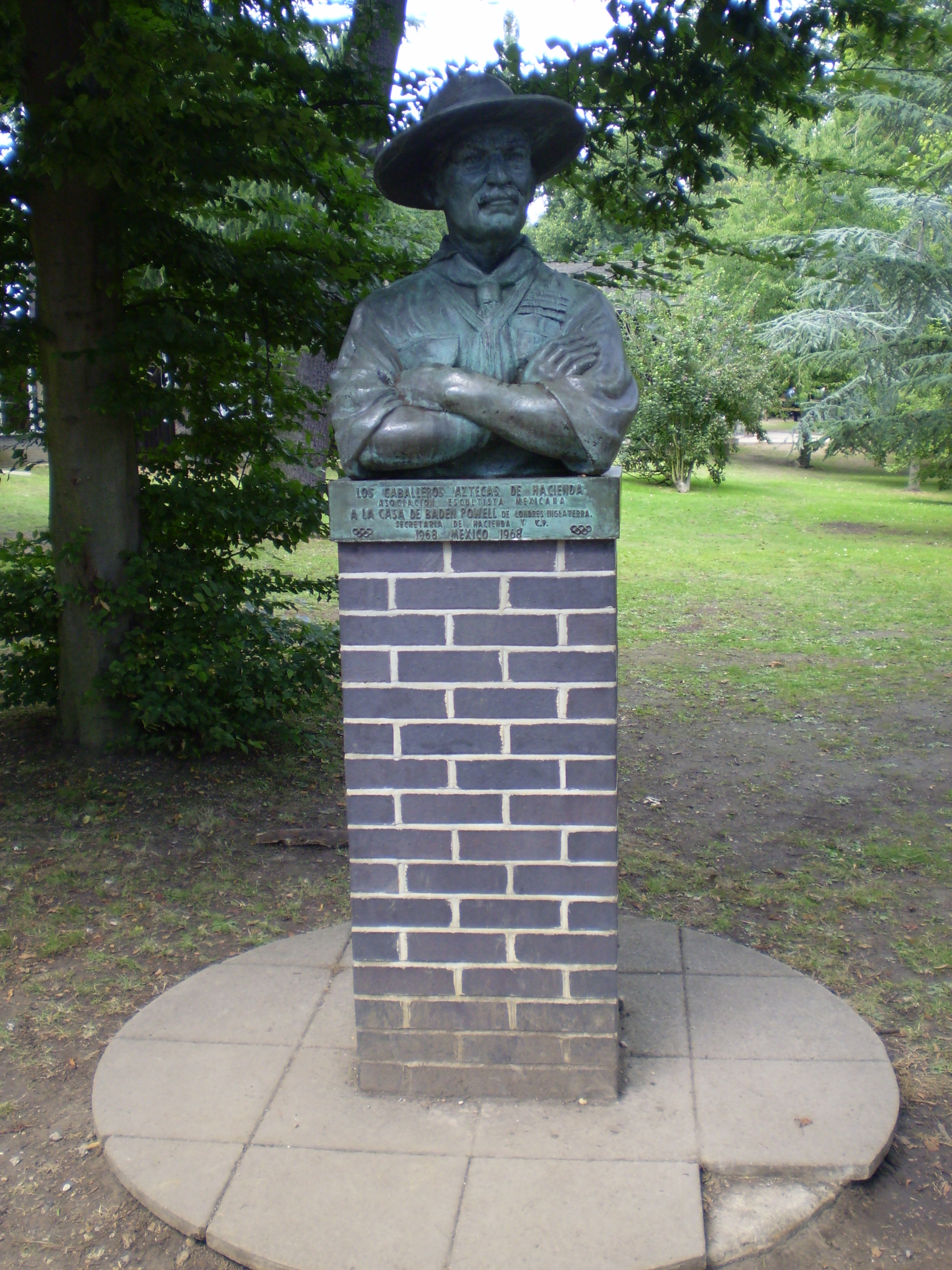 Gilwell Park Discovery at the 21st World Scout Jamboree: B.-P.'s bust